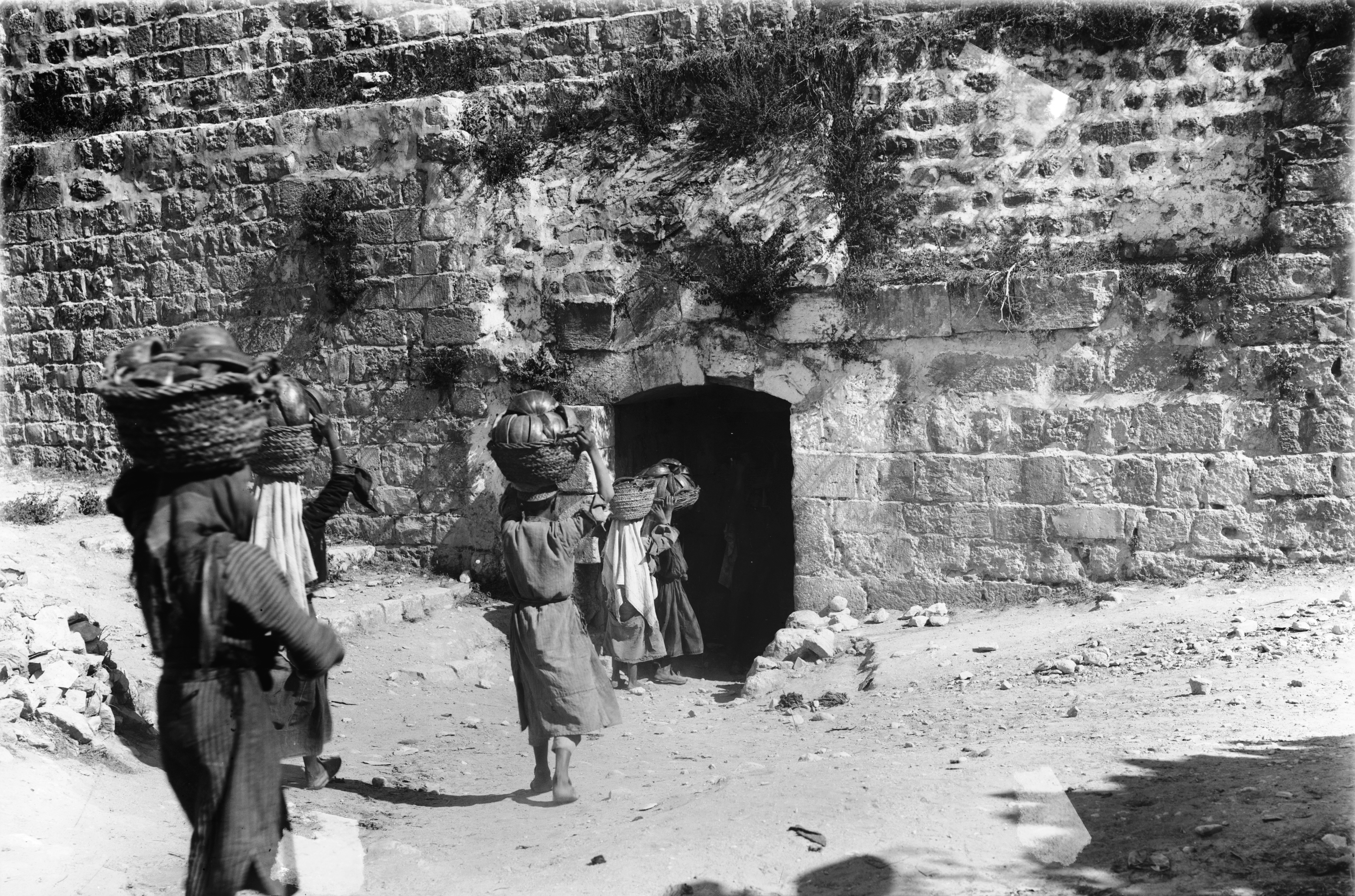 Jerusalem, Dung Gate between 1940 to 1946, before it was enlarged in 1952.